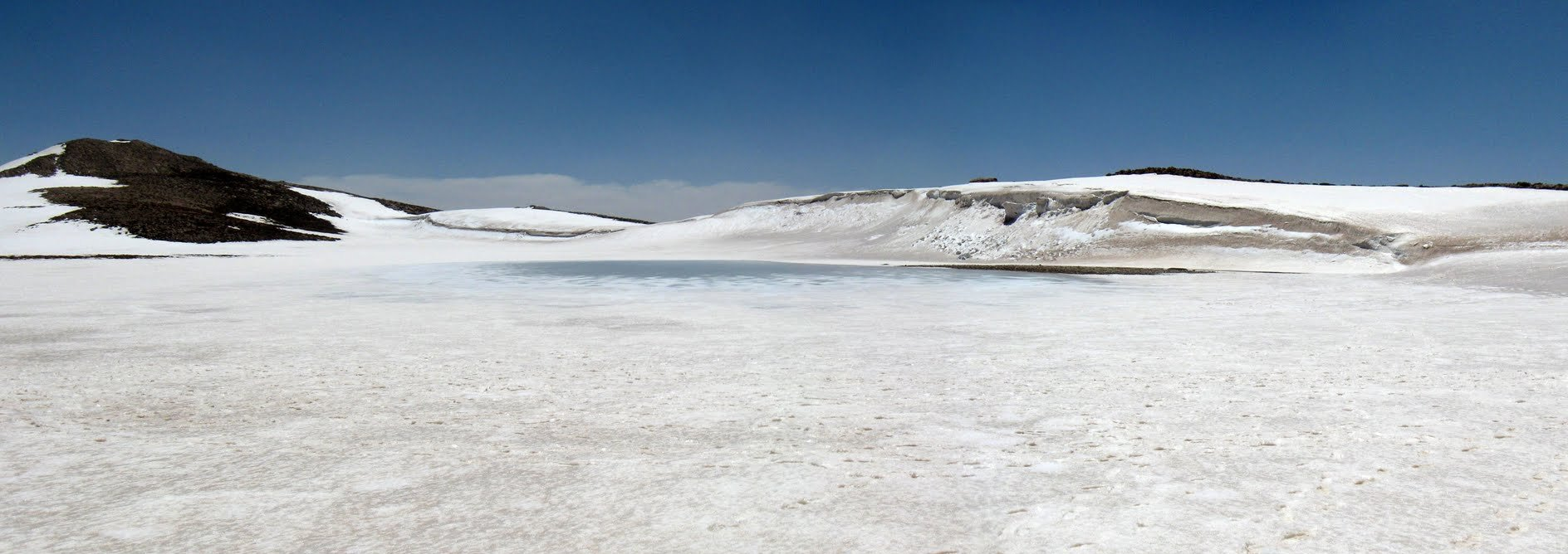 By the end of April, Barm Firooz Lake forms from melting snow.